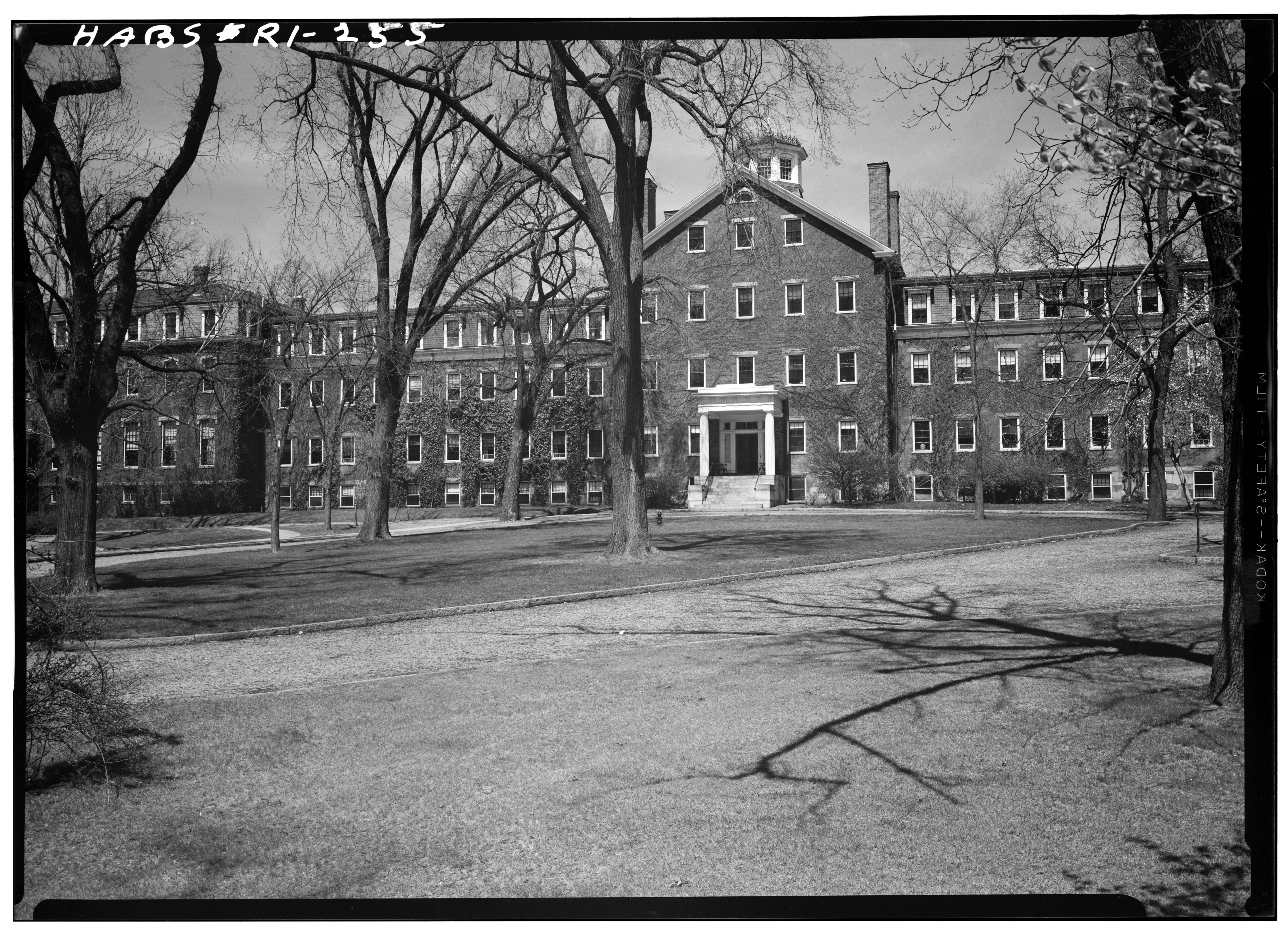 Moses Brown School, Providence, Rhode Island, USA